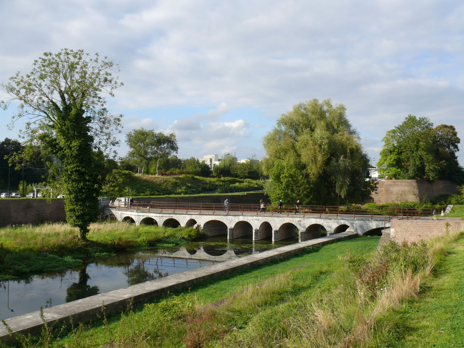 The citadel of Valenciennes (Nord, France).